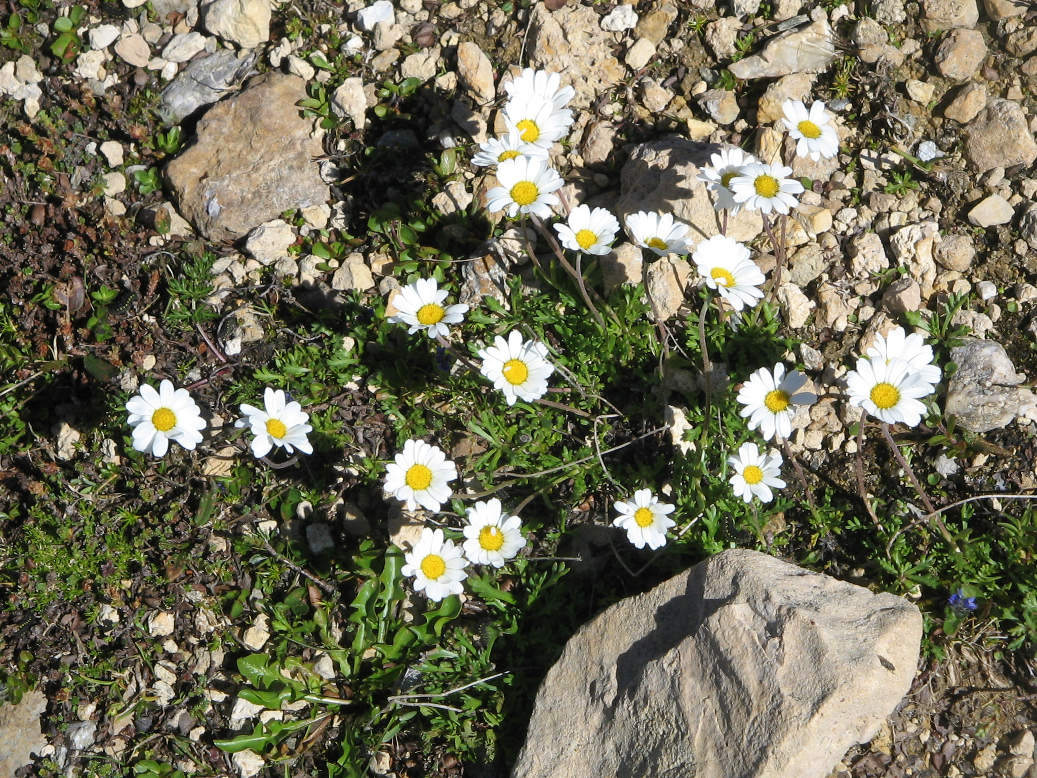 Leucanthemopsis alpina